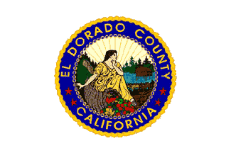 The official flag of El Dorado County, California, consisting of the county seal on a blank, opaque background.